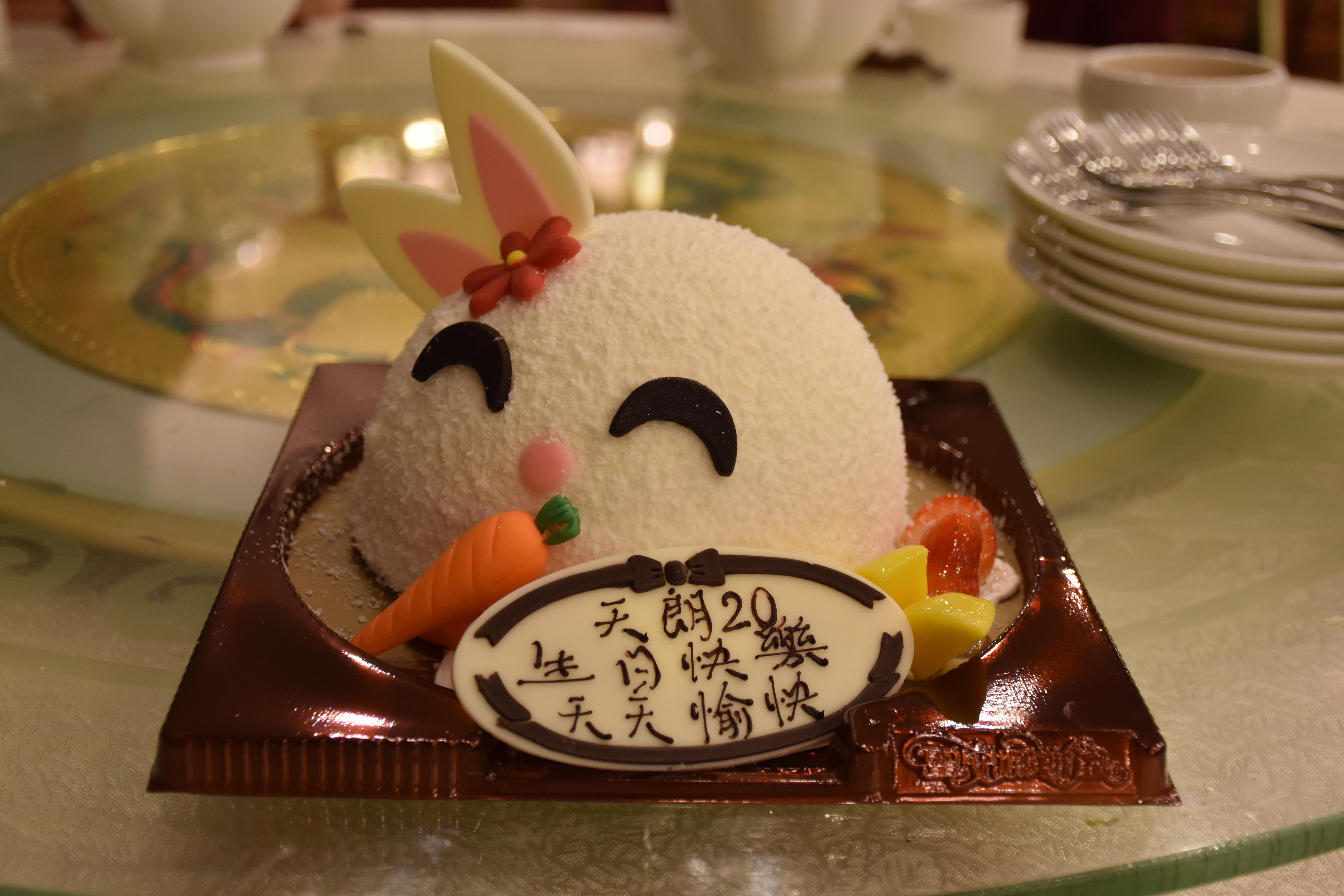 The whitey bunny birthday cake in my 20th Anniversary birthday